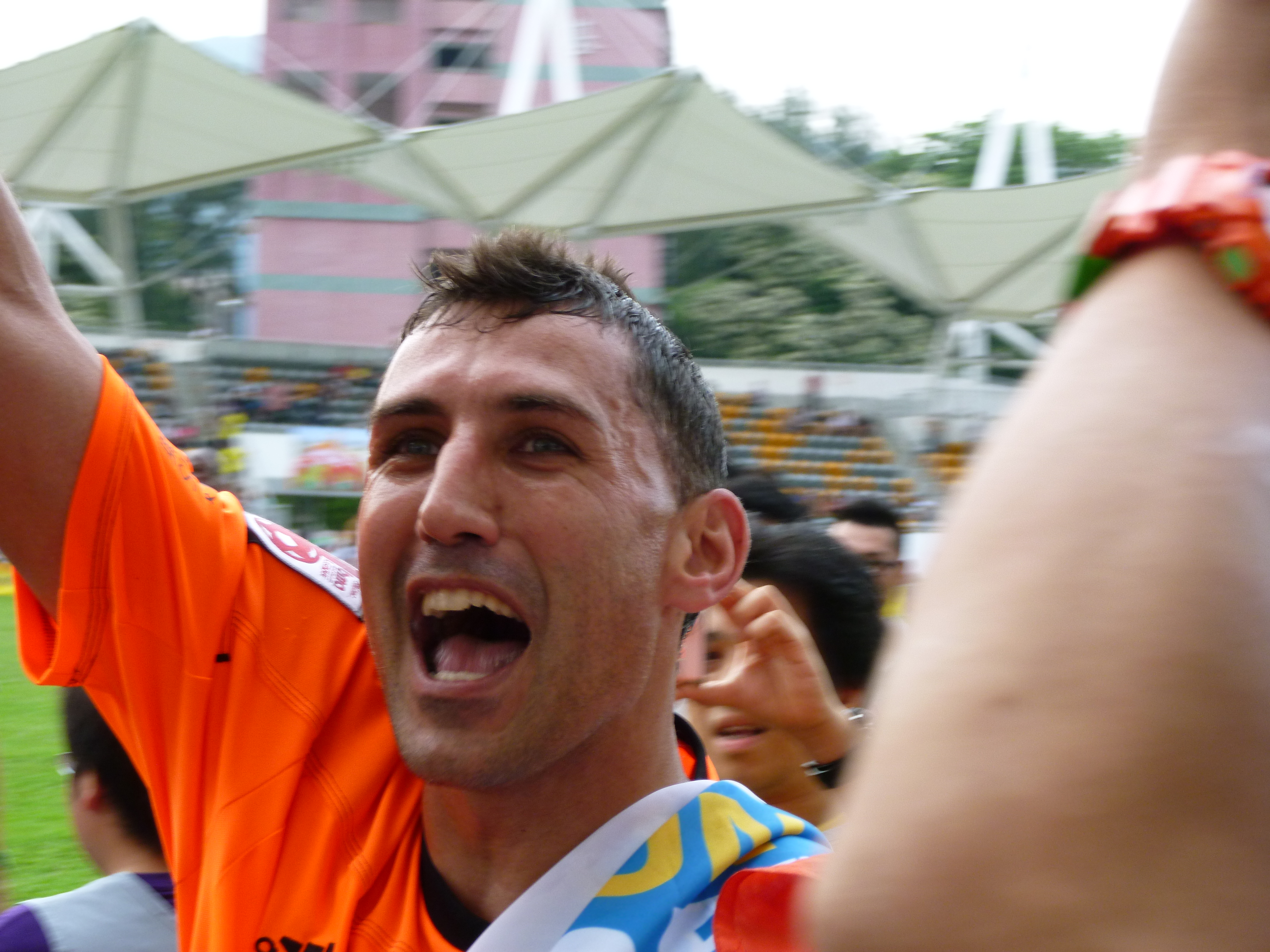 Cristiano Preigchadt Cordeiro (3 June 2012 testimonial match of Cristiano Cordeiro; Mong Kok Stadium, Hong Kong)